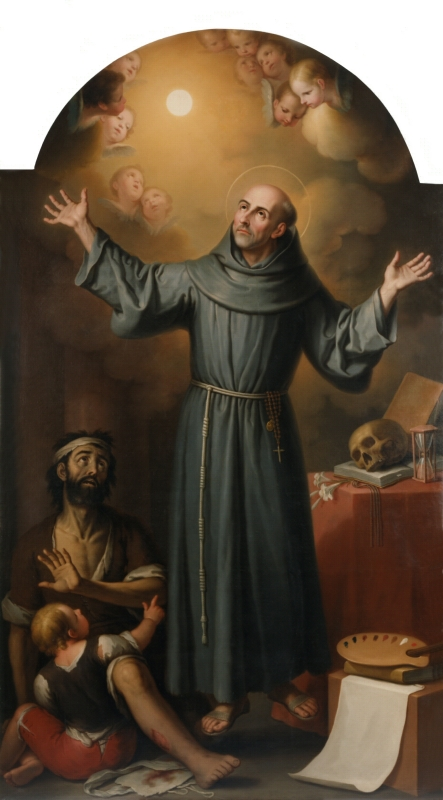 Portrait of Beatus Nicolau Factor